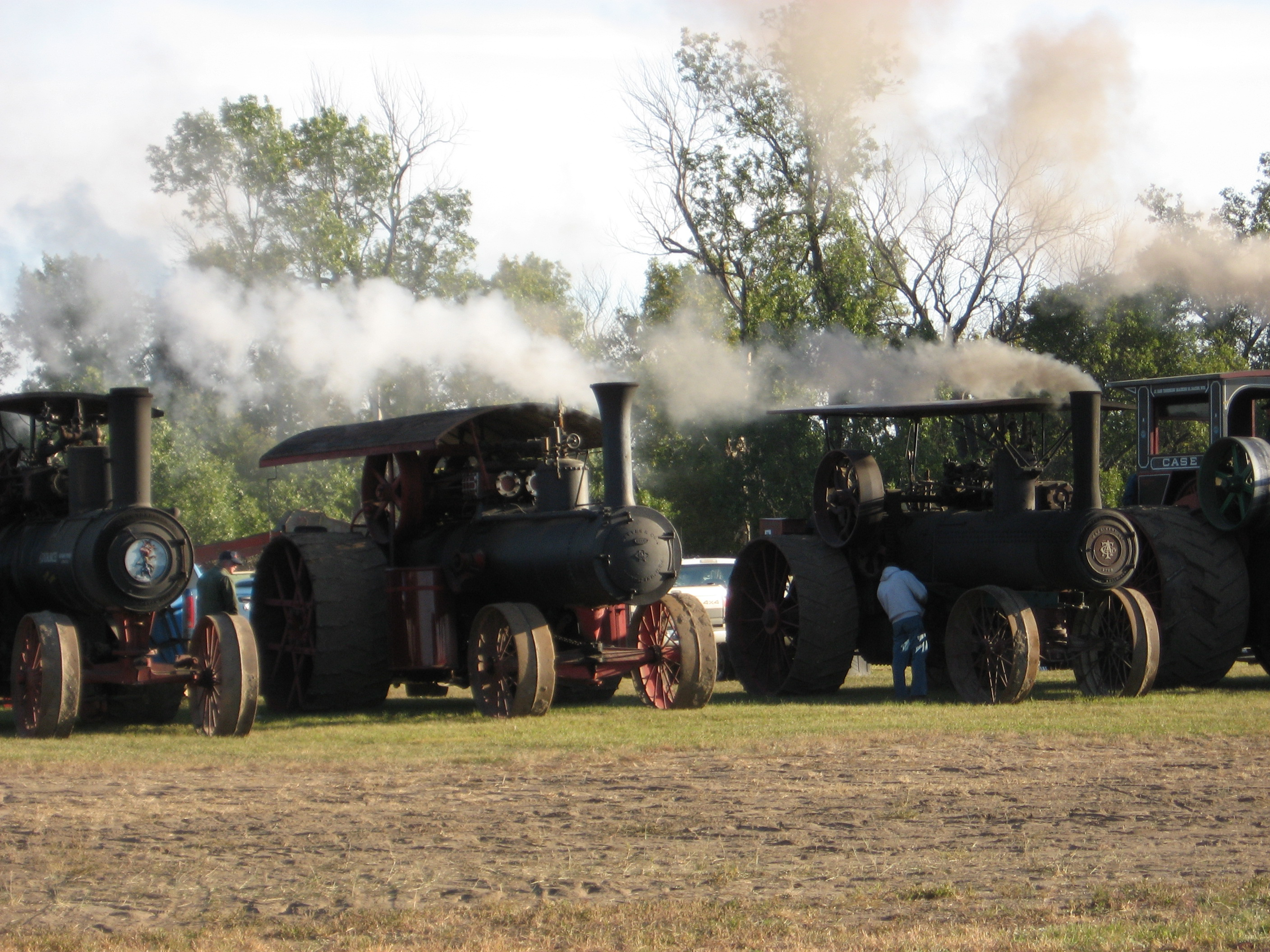 Steam Enignes at the Central North Dakota Steam Thresher's Reunion